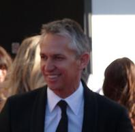 Gary Lineker in April 2009 at BAFTA's